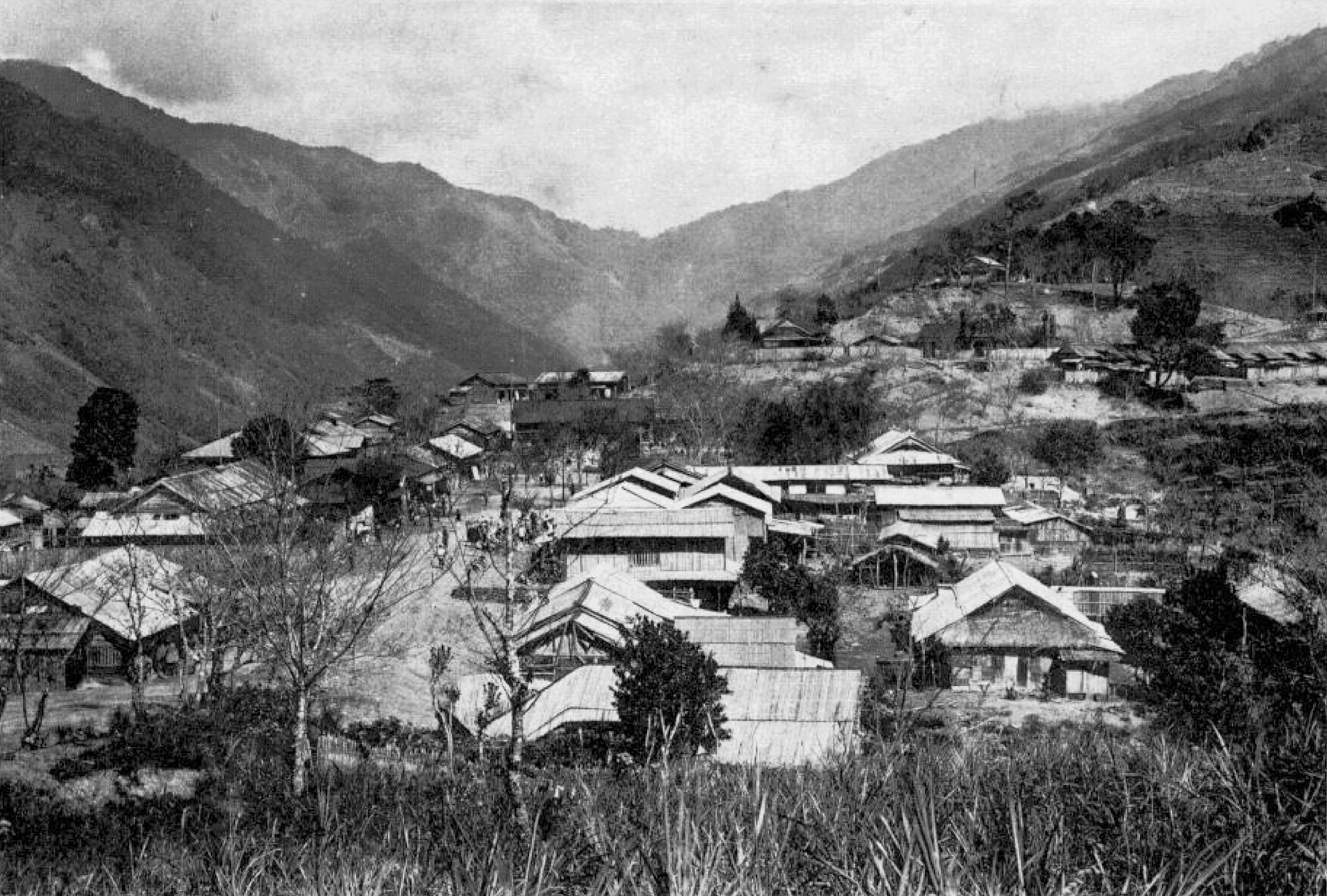 View of Musha